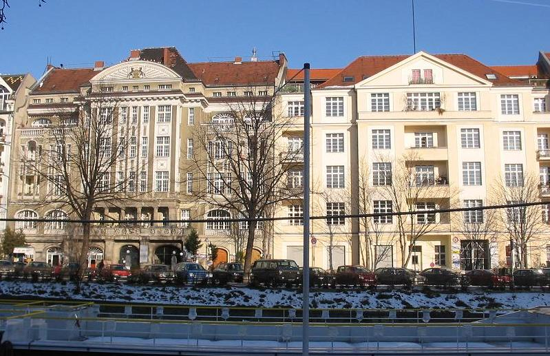 Landwehrkanal in Berlin-Kreuzberg. Residential houses by Wilhelminian style.